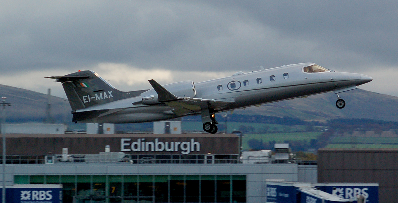 Airlink Airways Learjet 31A LJ31